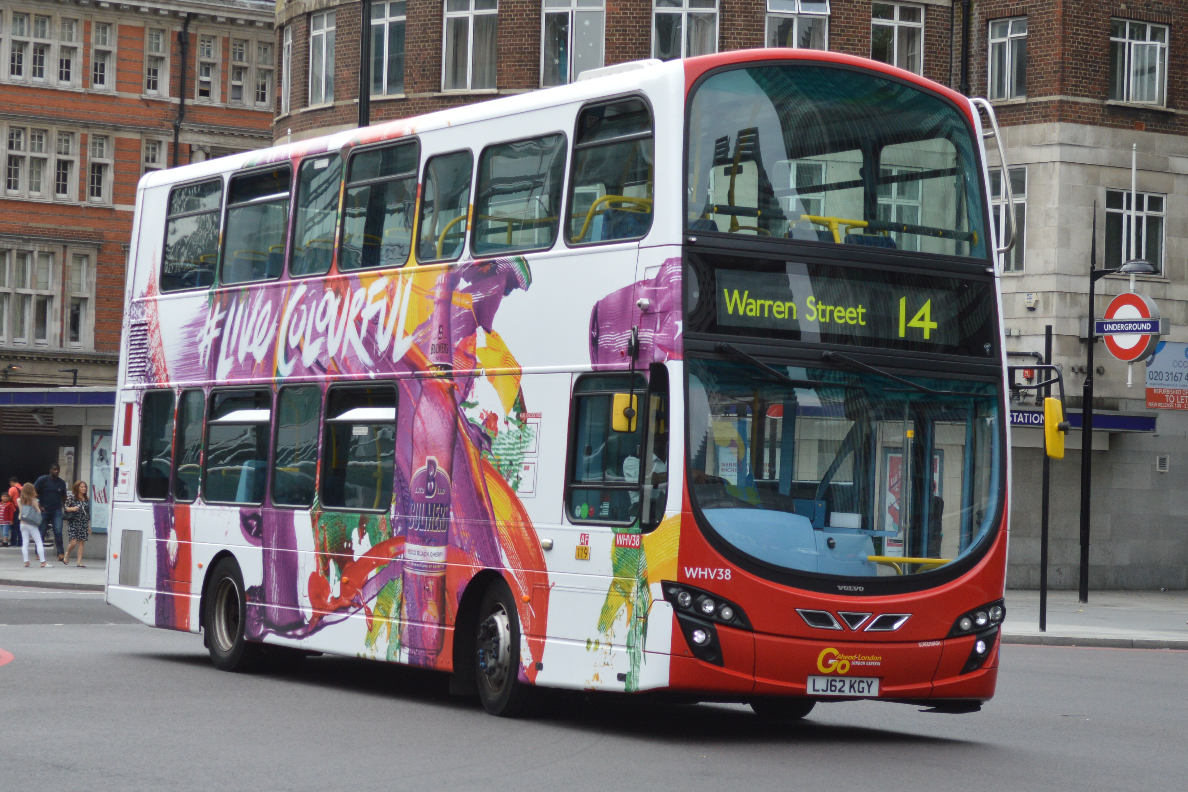 Go-Ahead London General LJ62 KGY on Route 14 from Putney Bridge Station to Warren Street on Tuesday 5 August 2014 with a Bulmers “wrap”.